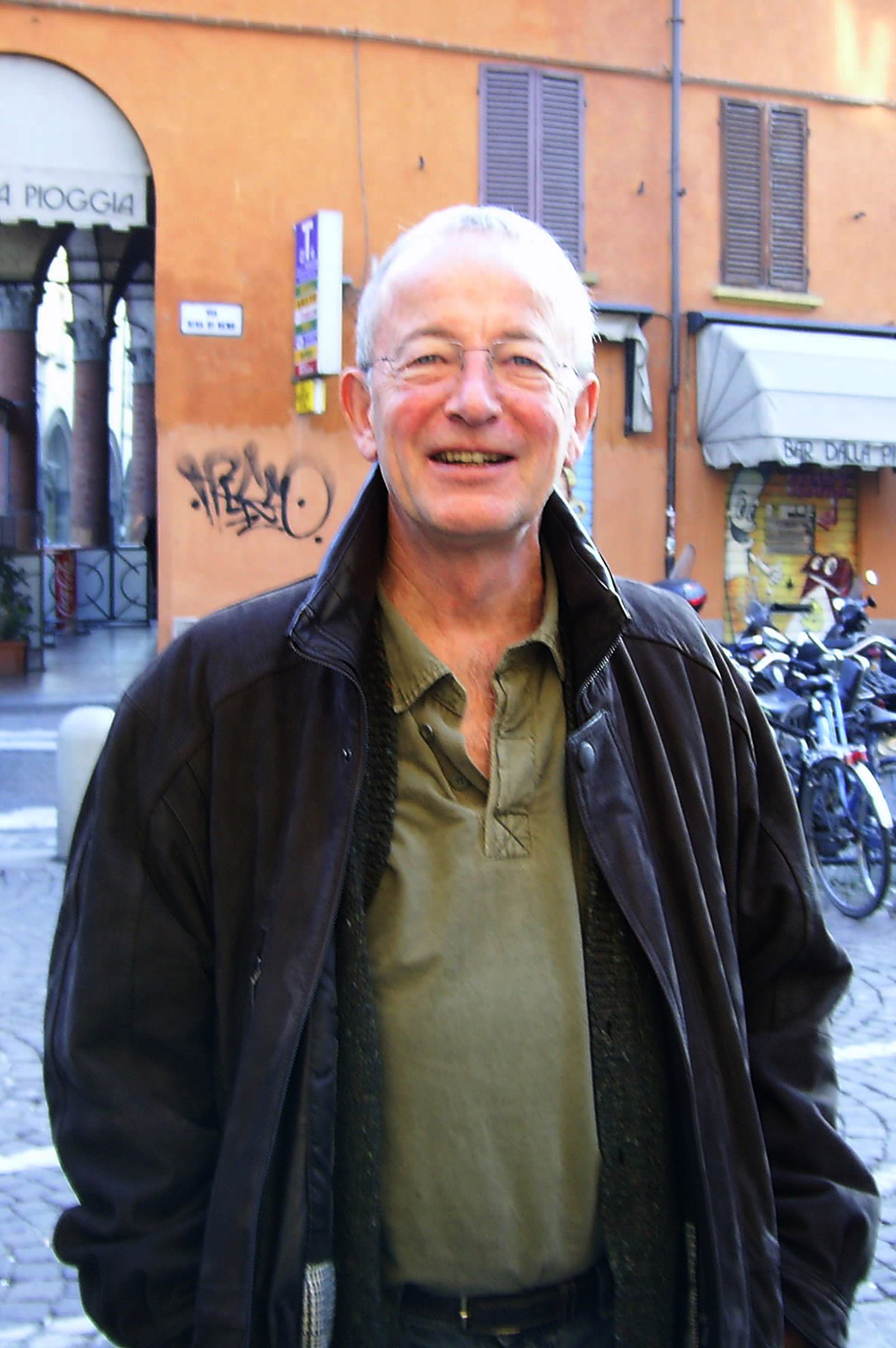 Nicholas Humphrey taken while on a trip with him to Bologna